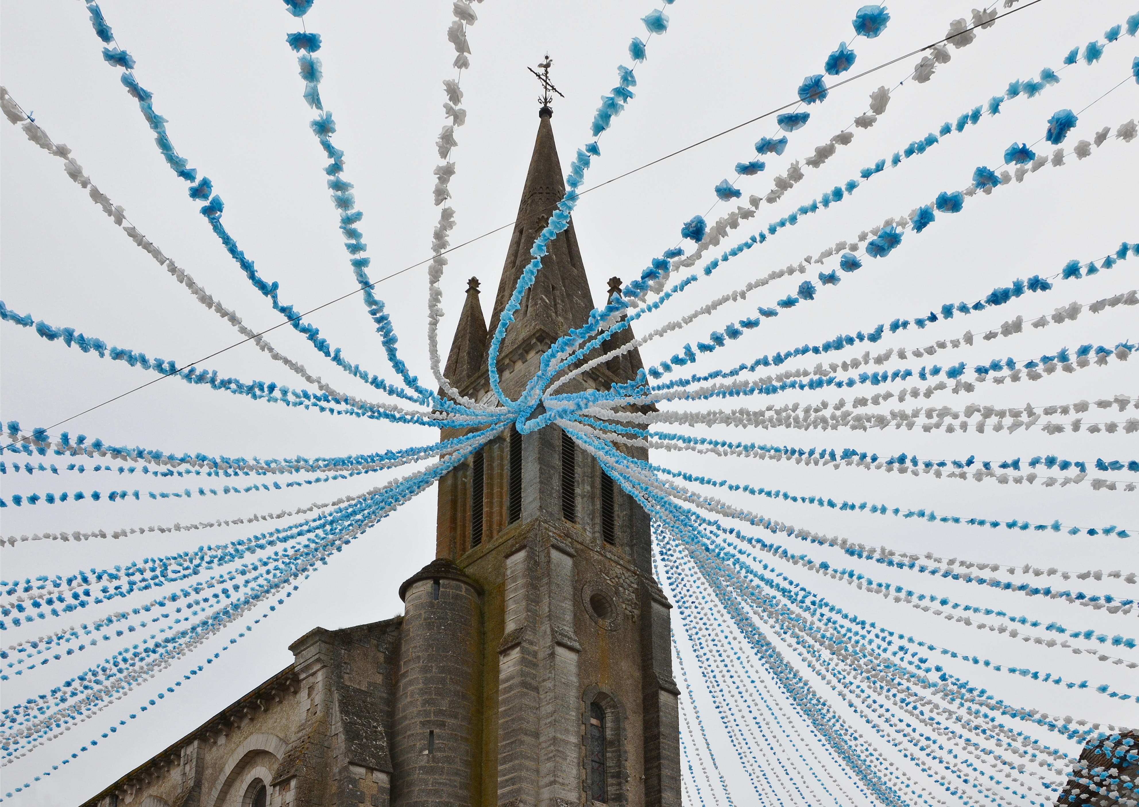 Garlands above a decked street near the church tower, Félibrée of Verteillac, Dordogne, France.